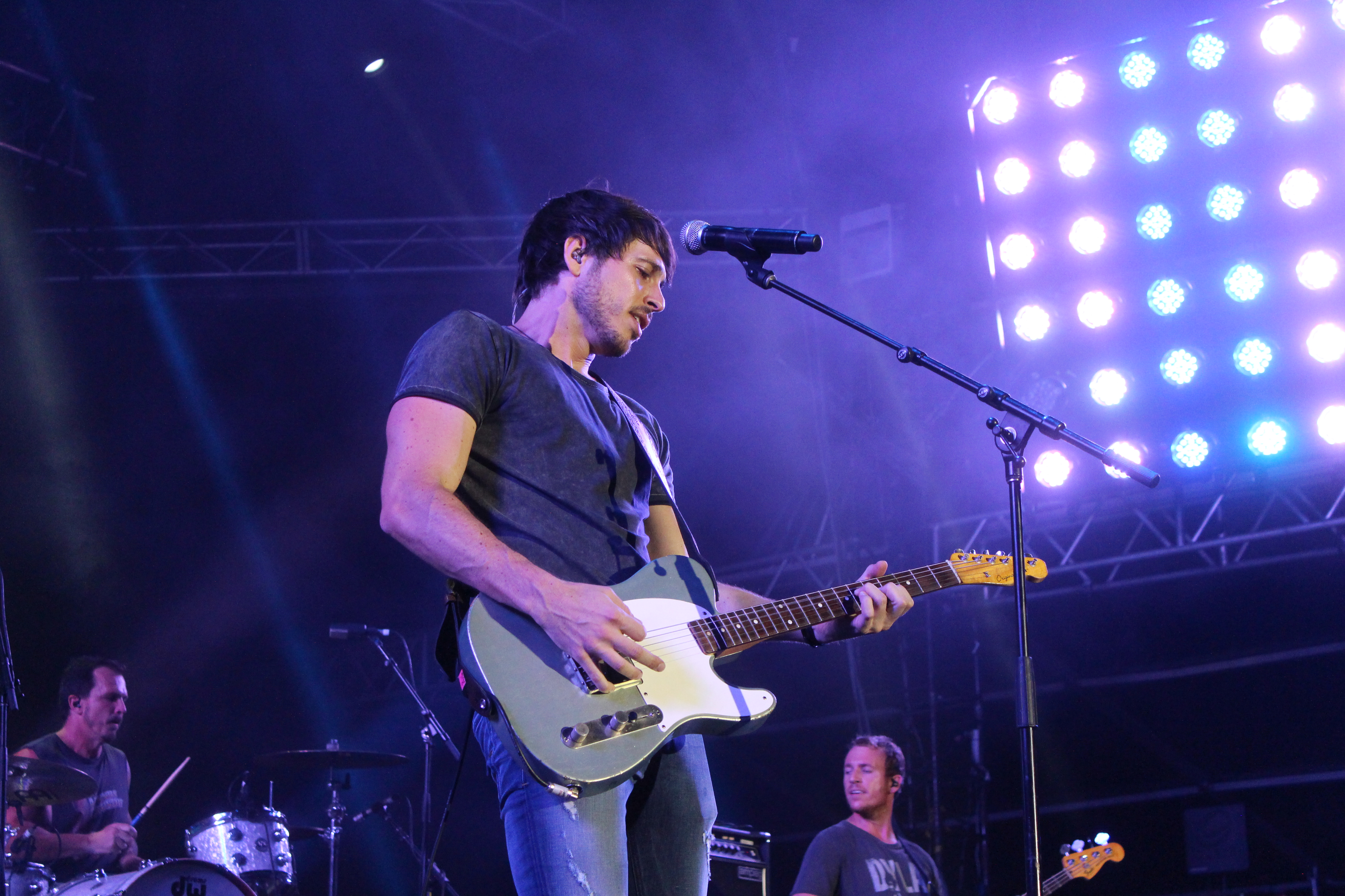 Morgan Evans performing on stage at CMC Rocks 2016